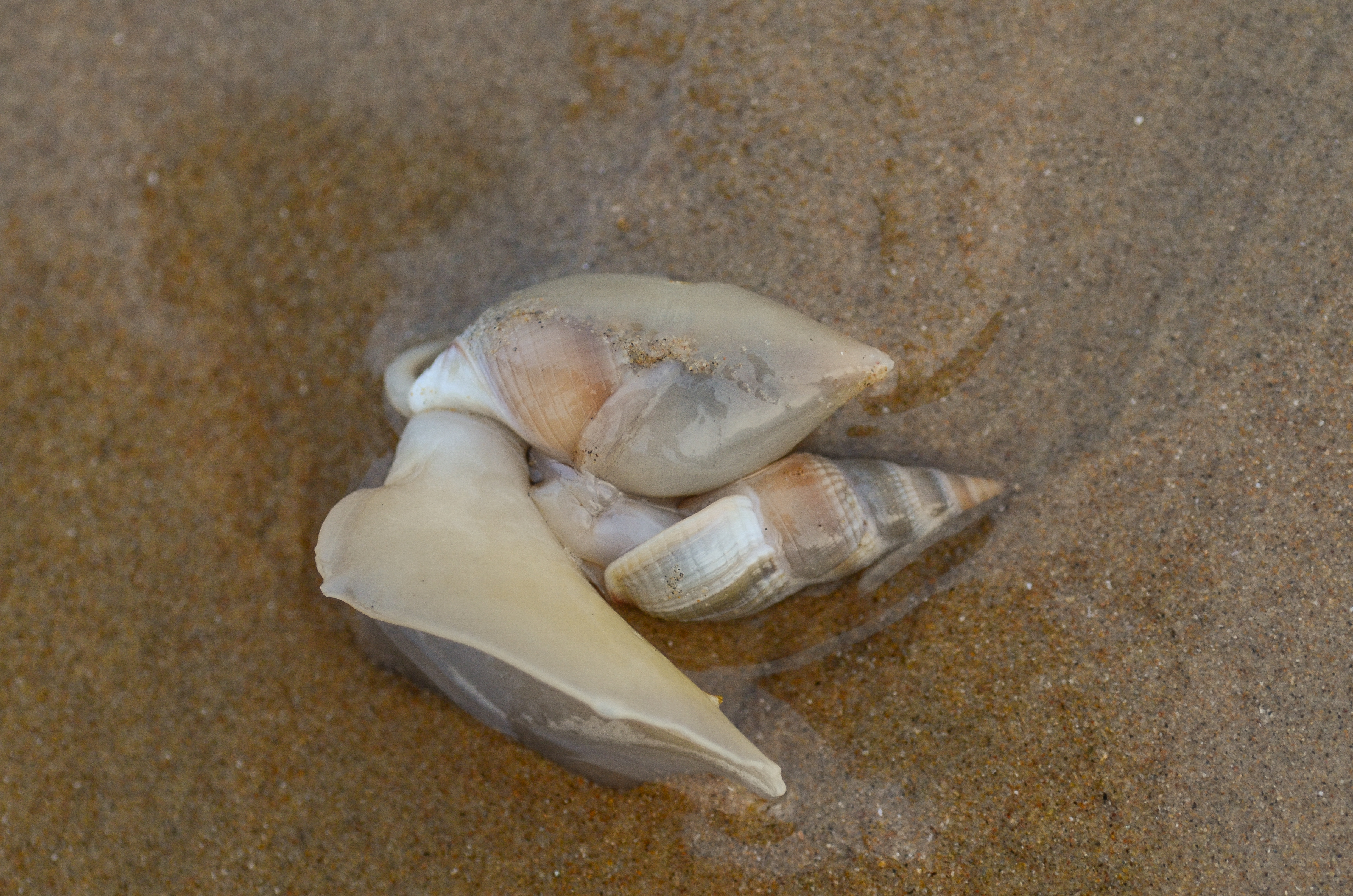 Mating Snails